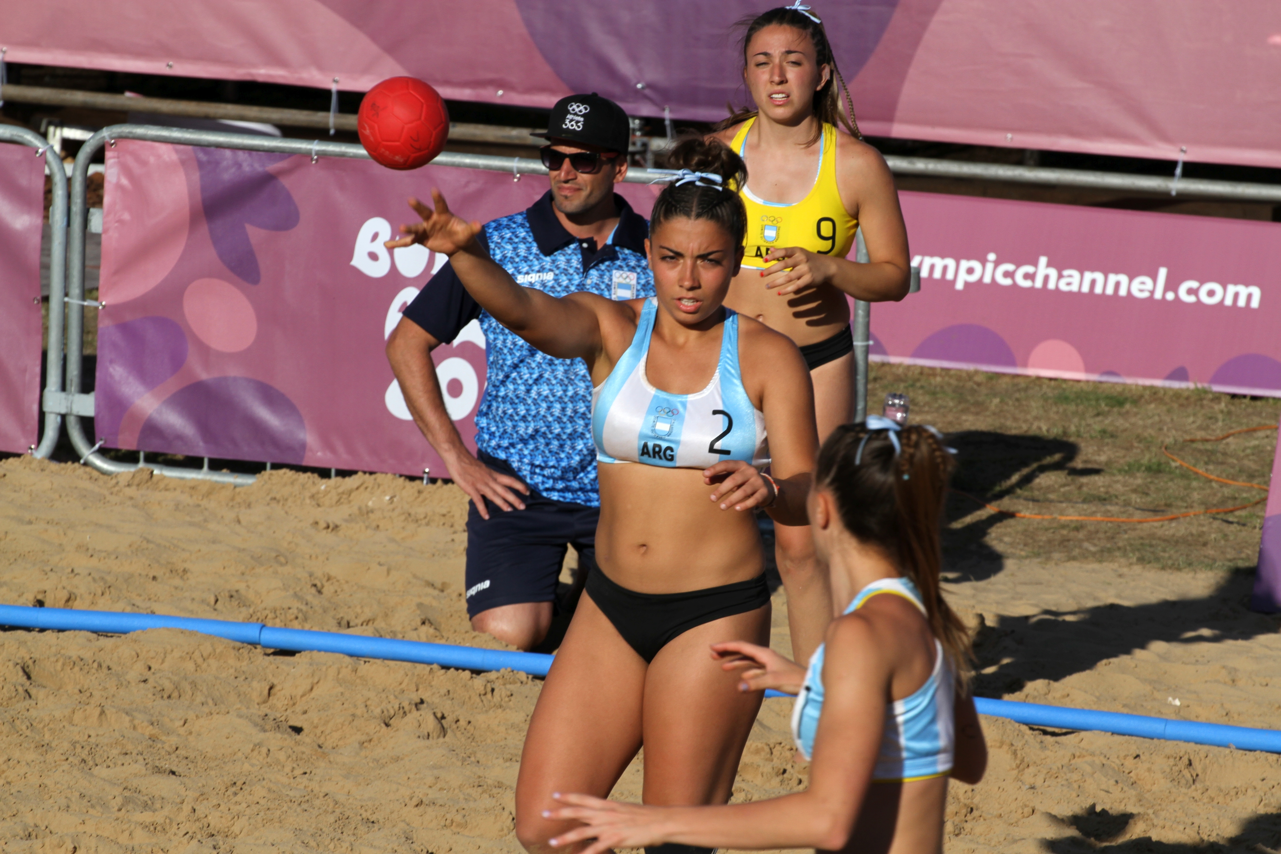 Beach handball at the 2018 Summer Youth Olympics at 9 October 2018 – Girls Preliminary Round Group B – Argentina-Hing Kong 2:0